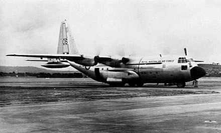 Original caption: Richmond, NSW. A RAAF Lockheed Hercules aircraft, A97-206 of No. 36 (T) Squadron, at an airstrip. Further information: Twelve Lockheed C-130A Hercules aircraft (serials A97-205 to 216) were delivered between December 1958 and March 1959 and replaced the ageing Dakotas operated by No. 36 Squadron.